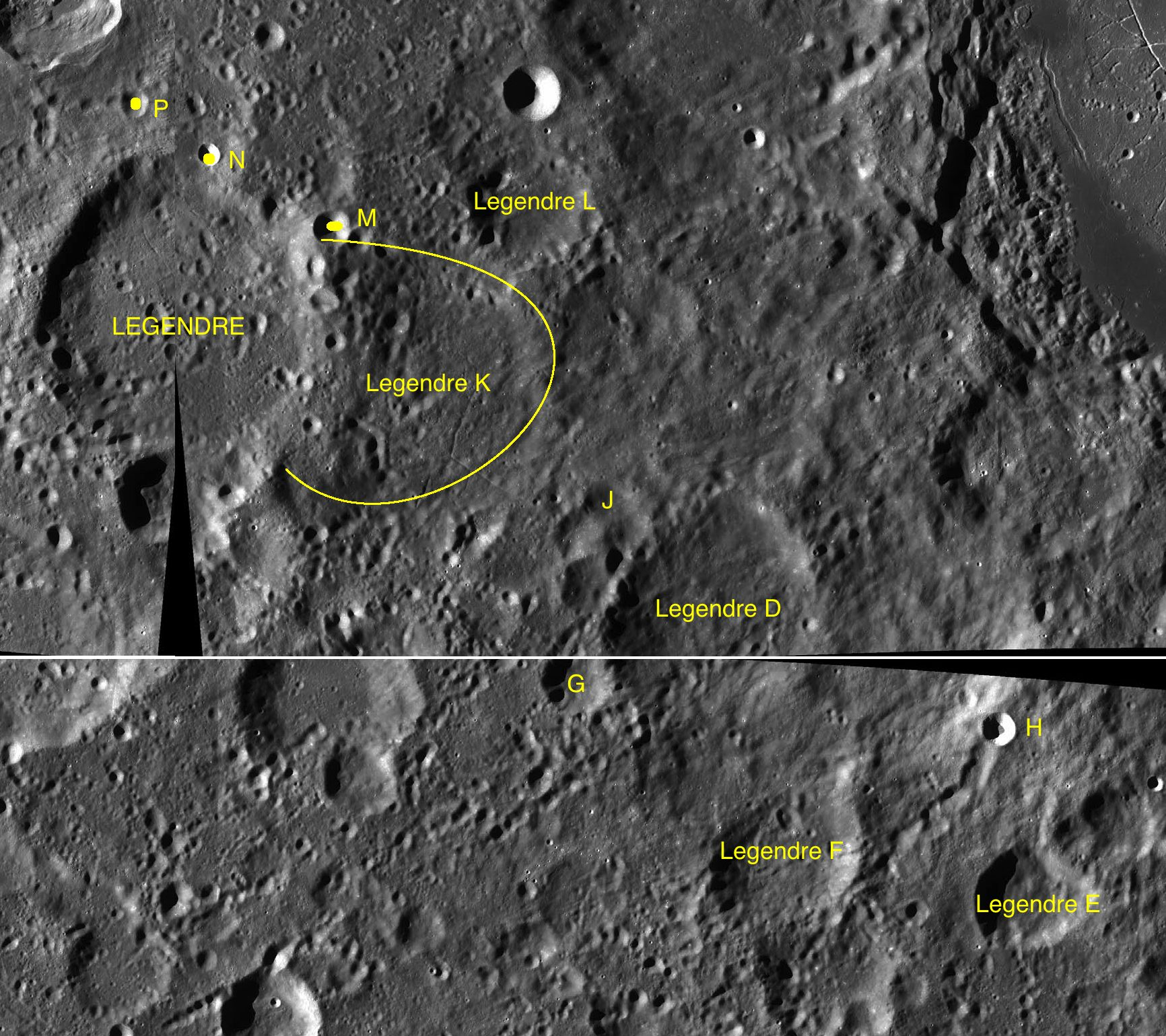 Parts of the charts LAC-98, LAC-99, LAC-115 used for the presentation